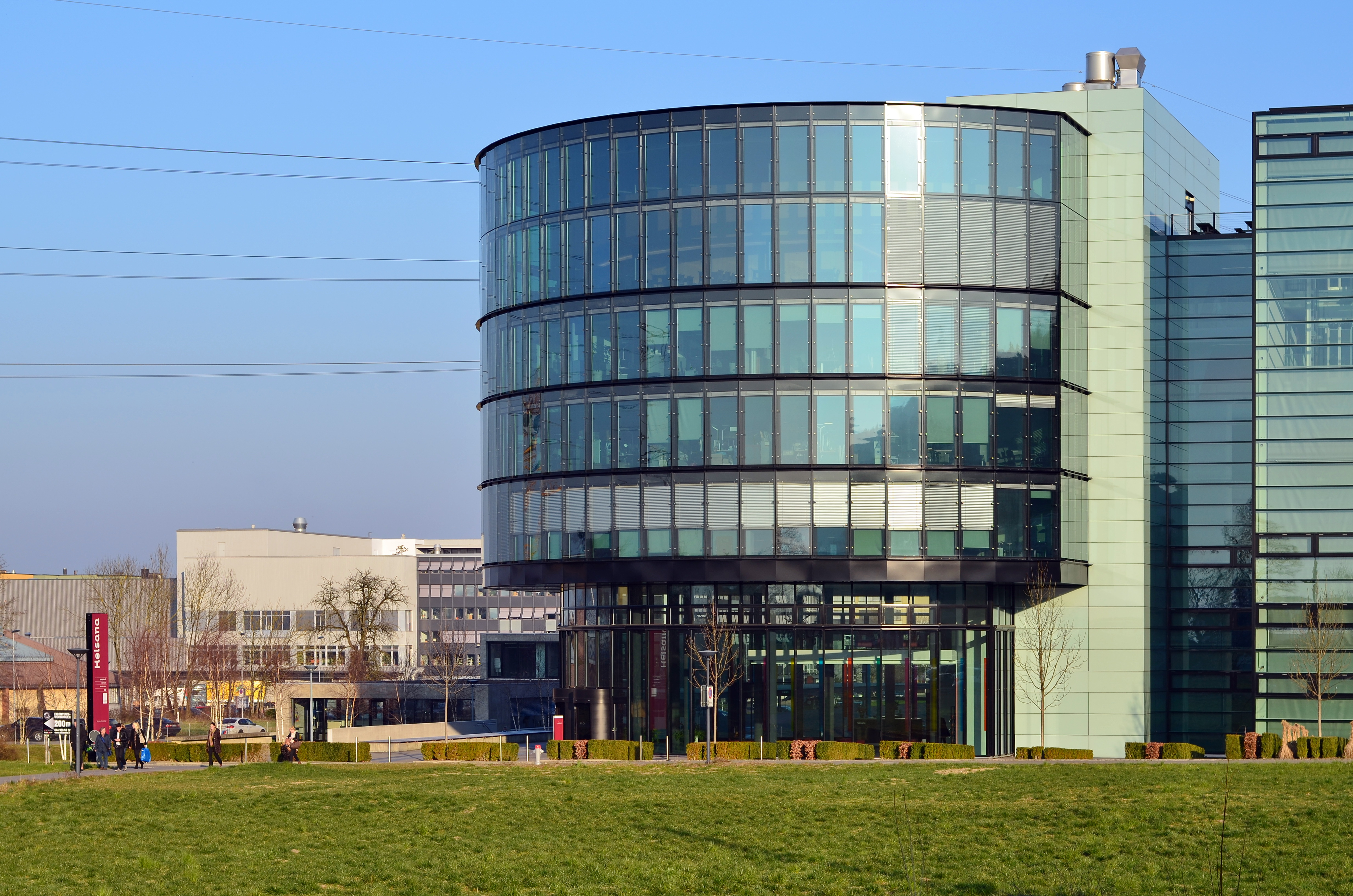 Dübendorf : Helsana Assurances, Administration building nearby Railway station Zürich-Stettbach.